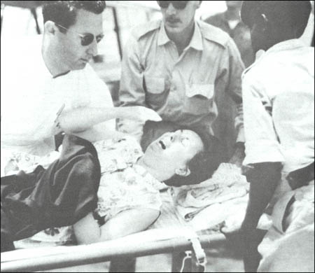 original description: "A Belgian woman in hysterics as she is transported to a departing C-130"[1]